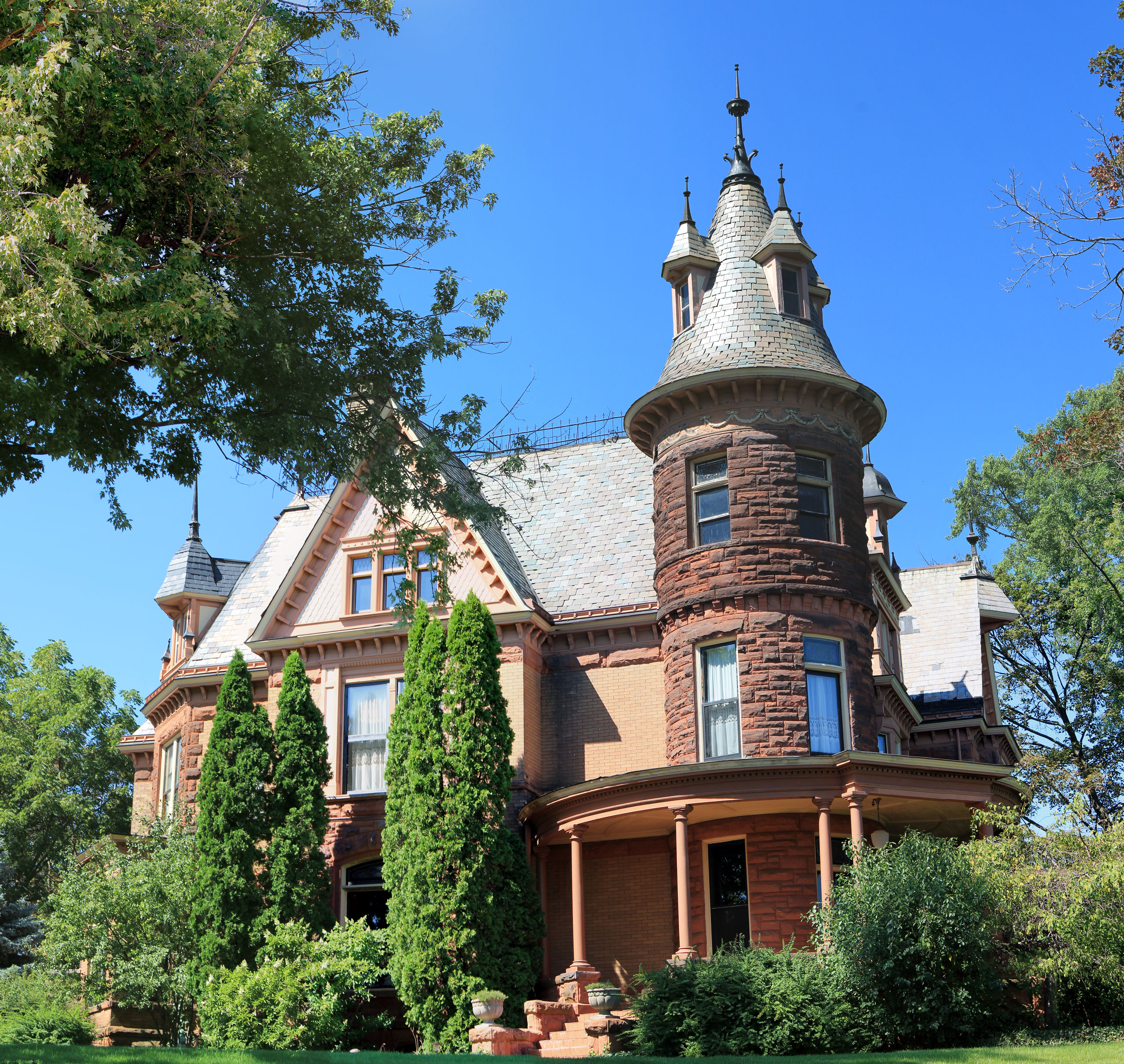 Here is a picture of the historic Henderson Castle in Kalamazoo, Michigan